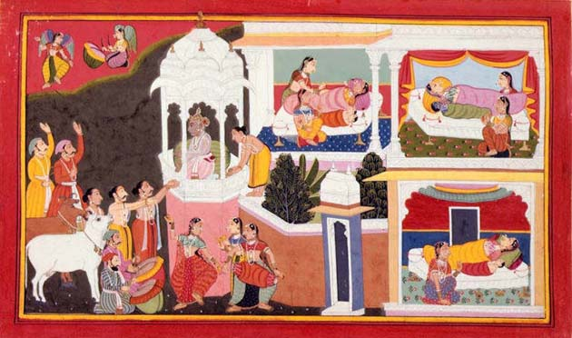 Image showing the birth of the four divine sons of King Dasaratha. Dasaratha ruled a land called Koshala in northern India and his capital was Ayodha. In this image, Dasaratha is seated under a white canopy. Inside the palace, on the top floor to the left is Queen Sumitra with her twins. On the top floor to the right is Queen Kausalya with Rama. On the bottom floor is Queen Kaikeyi with Bharata. Meanwhile in the street, the people of Ayodhya dance and sing in the streets in celebration at the royal births.(Ramayana from Udaipur)